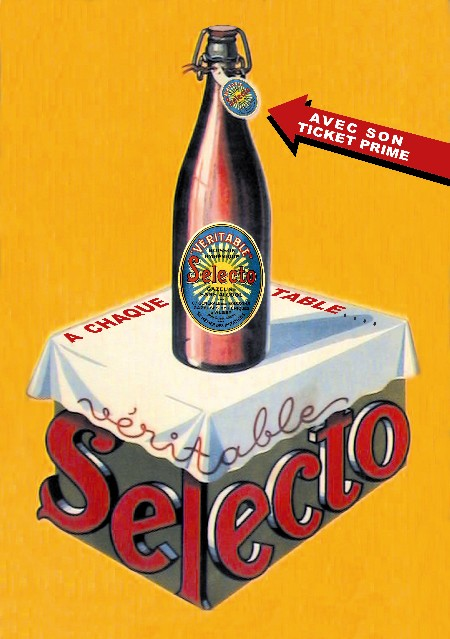 Affiche Selecto